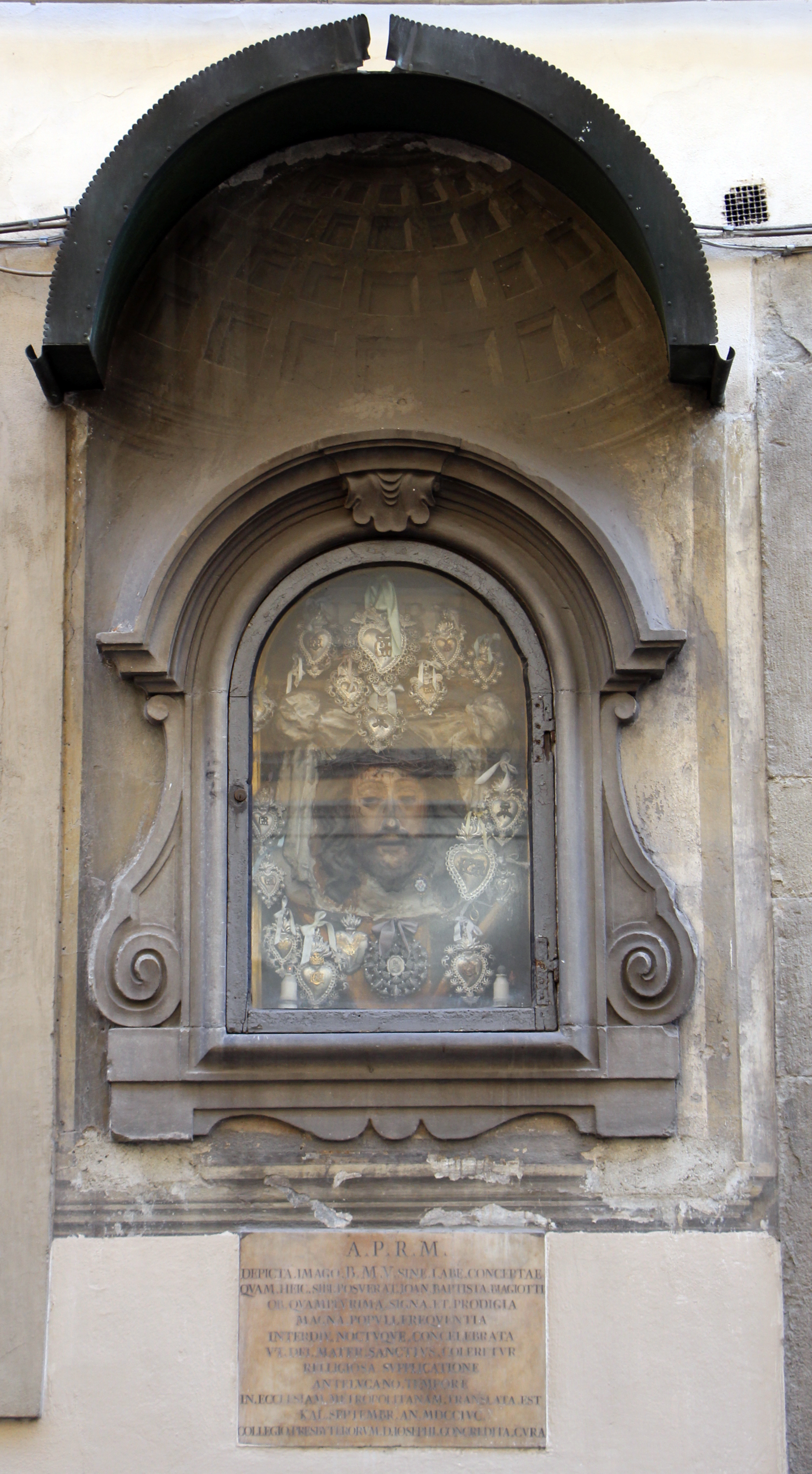 Veil of Veronica shrine (Florence)